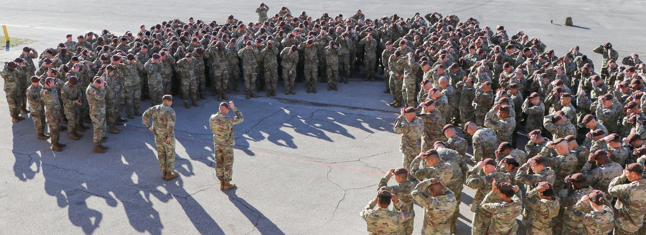 U.S. Army's w:3rd Security Force Assistance Brigade (3rd SFAB) beret downing ceremony